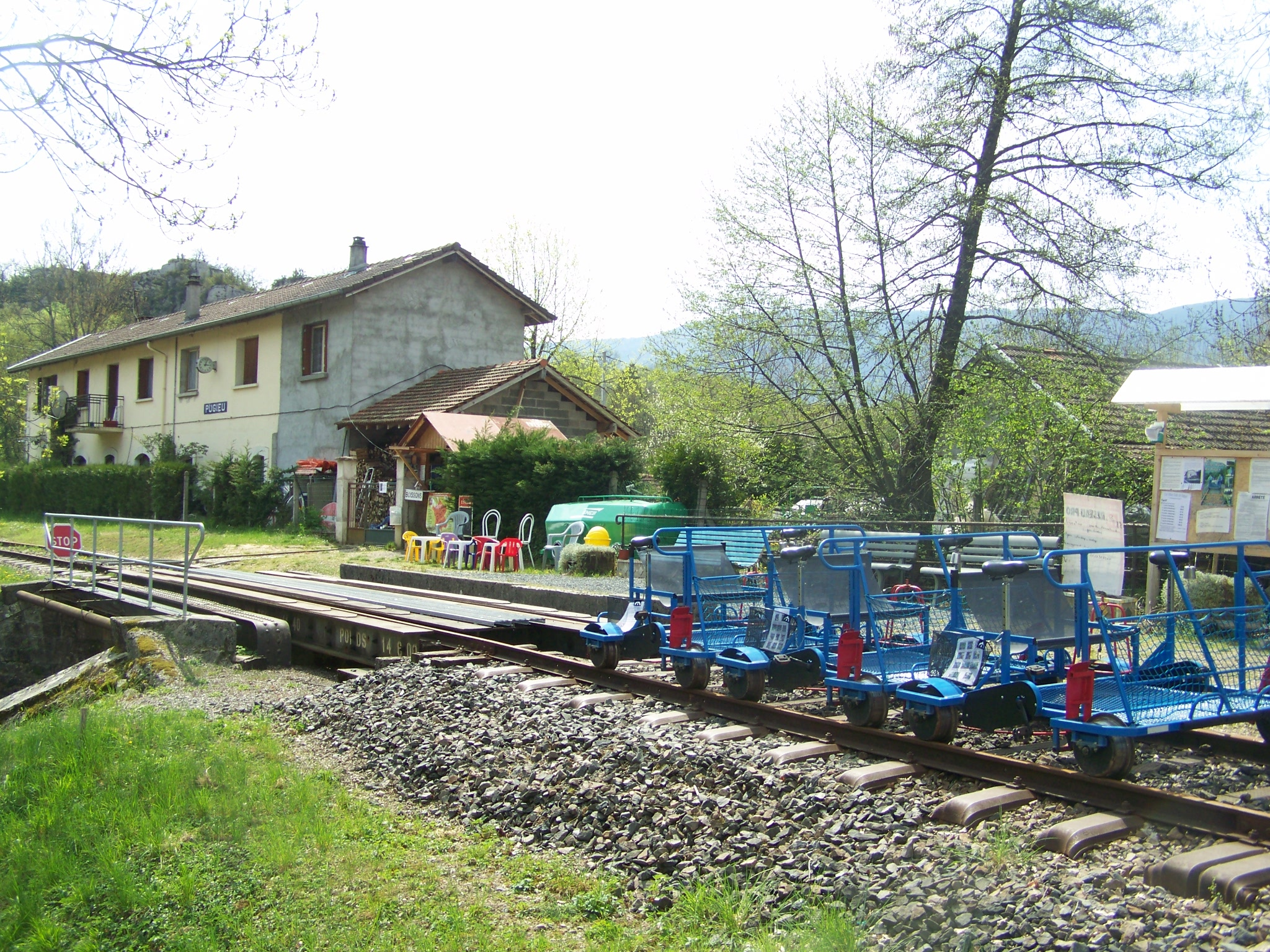 Departure of Vélorail (to Virieu-le-Grand) at the old railway station of Pugieu in Ain, France.